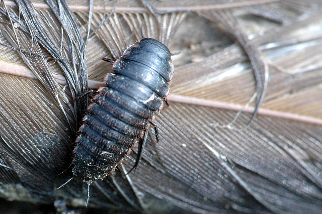 Picture taken in Commanster, Belgian High Ardennes. Species: Thanatophilus sp. larva